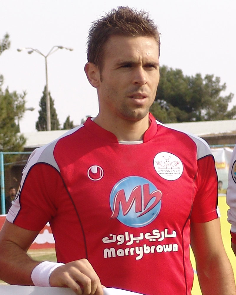 Ivan Petrović in Semnan